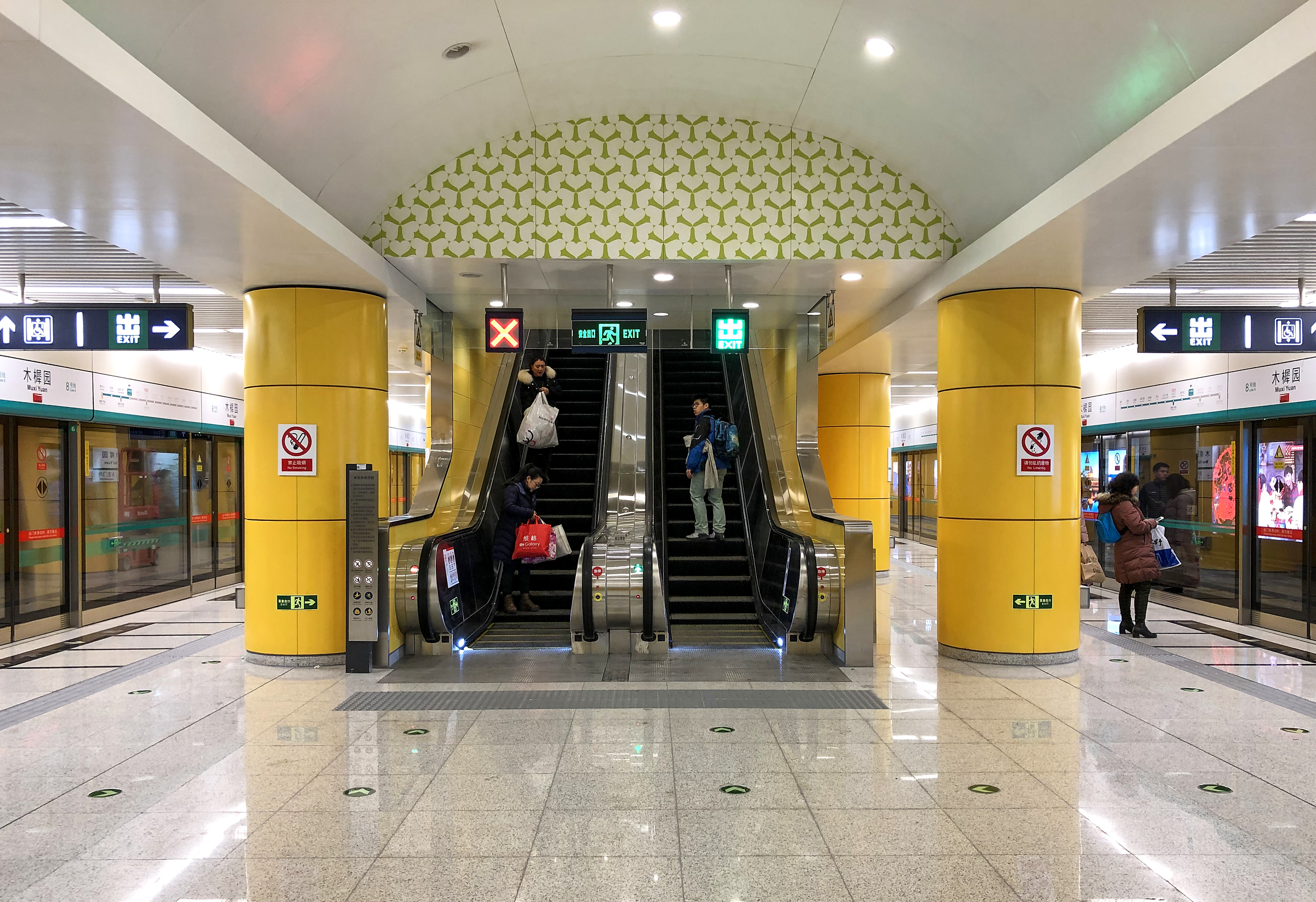 "No stop at Dahongmen!" The interchange passage between Line 8 and Line 10 at Dahongmen Station has not yet completed.